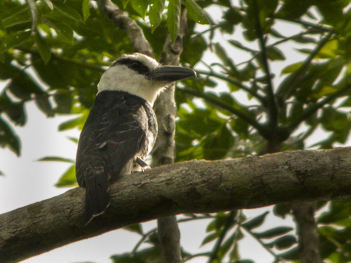 White-necked Puffbird - Ecuador_DSCN2772